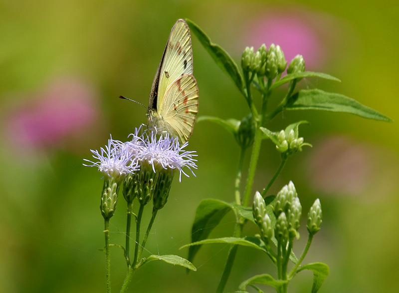 Crimson-Tip or Scarlet Tip Colotis danae on Common floss flower Chromolaena odorata (Syn. Eupatorium odoratum) -(Siam Weed, Bitter bush, Devilweed, Hagonoy, Jack in the bush, Triffid weed • Hindi: तीव्र गंधा Tivra gandha, Bagh dhoka • Malayalam: കമ്മ്യുണിസ്റ്റ് പച്ച Communist Pacha, Venapacha) - in Hyderabad, India.